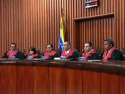 Supreme Tribunal of Justice meeting on 28 March 2017 to denounce statements by the Organization of American States describing Venezuela as being under a dictatorship.